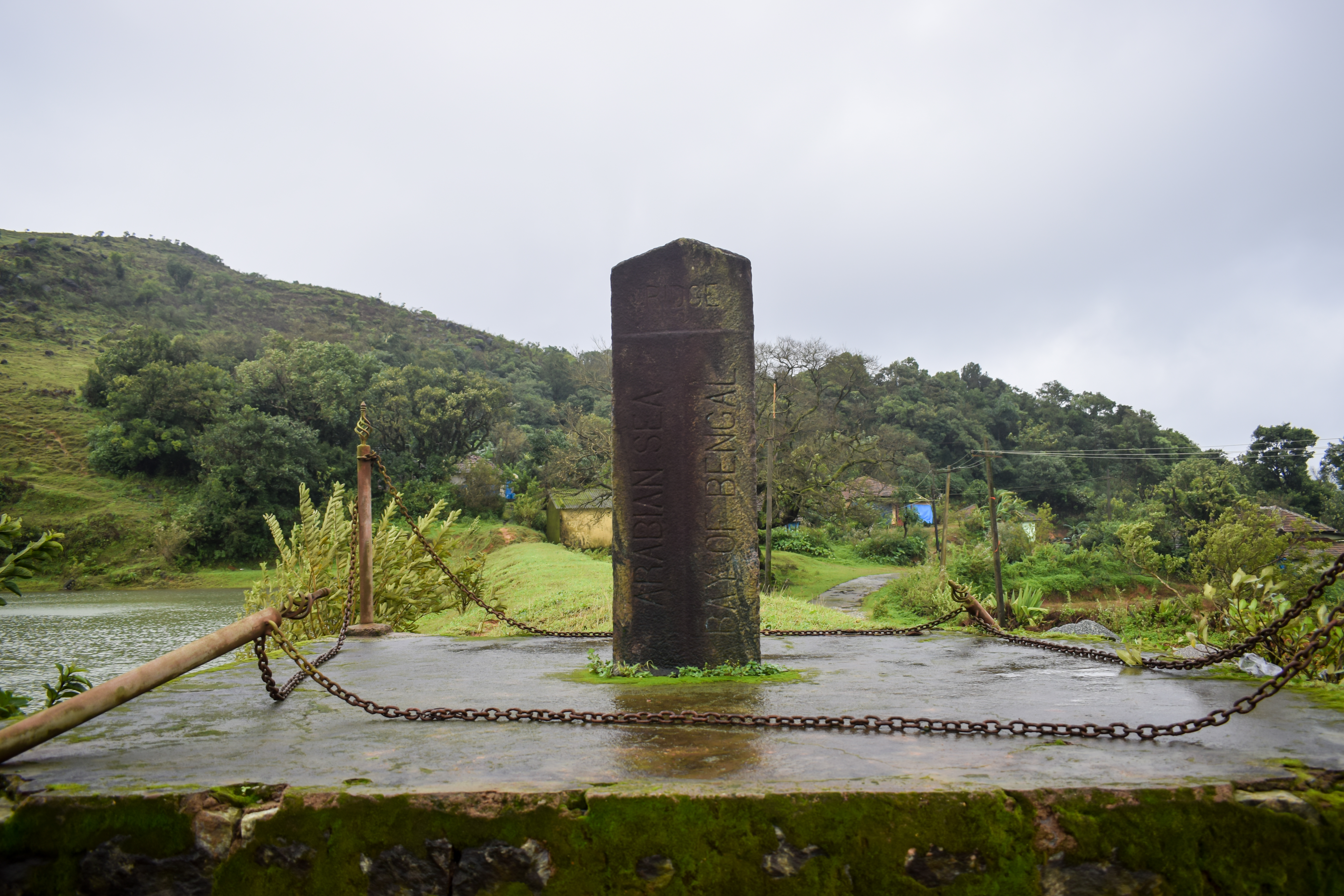 One of the ridge stones of the Great Trigonometric Survey of India present in the Bisle village, Hassan district, Karnataka.